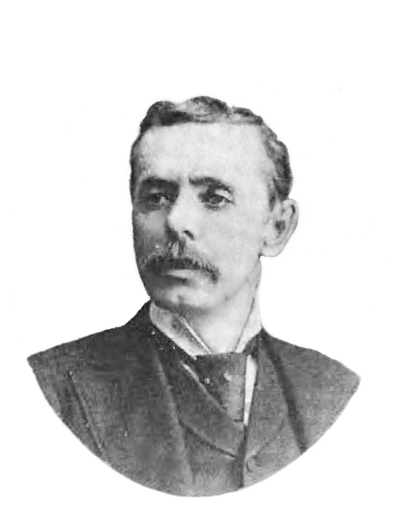 Winfield S. Kerr was a politician from Ohio.